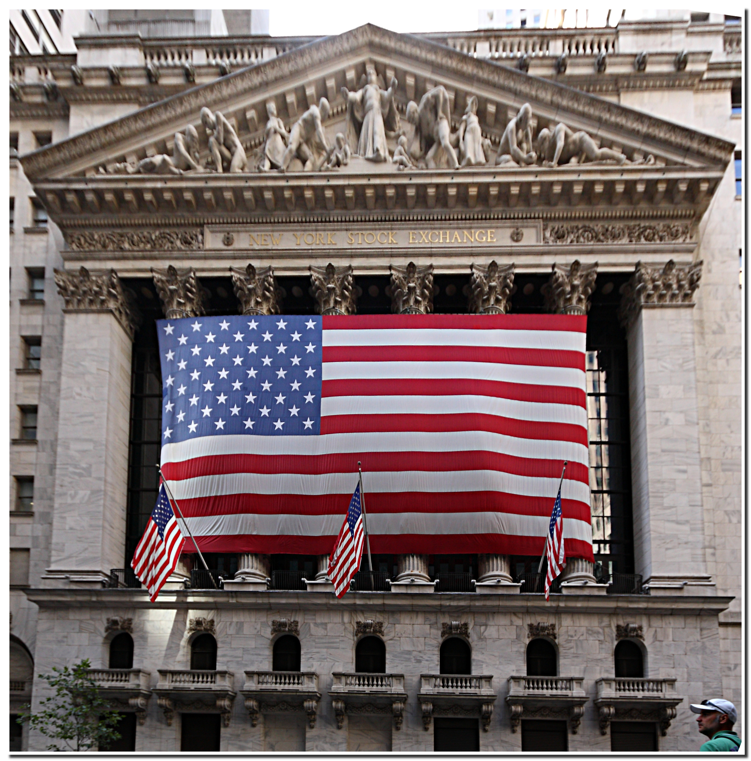 The New York Stock Exchange facade with a rich relief